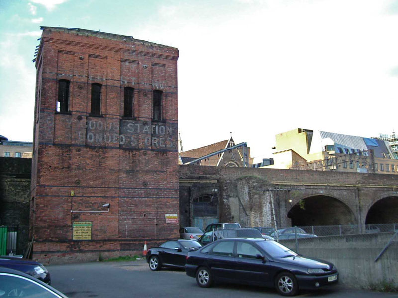 City Goods Station An uncommon sight in the City of London a derelict building. The faded sign says "City Goods Station and Bonded Stores". This was an accumulator tower for storing hydraulic power to operate wagon lifts. With the railway being on a viaduct, wagons had to be lowered to ground level to enter the goods depot. The Fenchurch St line opened in 1840 as the London & Blackwall Railway. This was a cable railway using stationary engines it was known as the tuppenny rope.